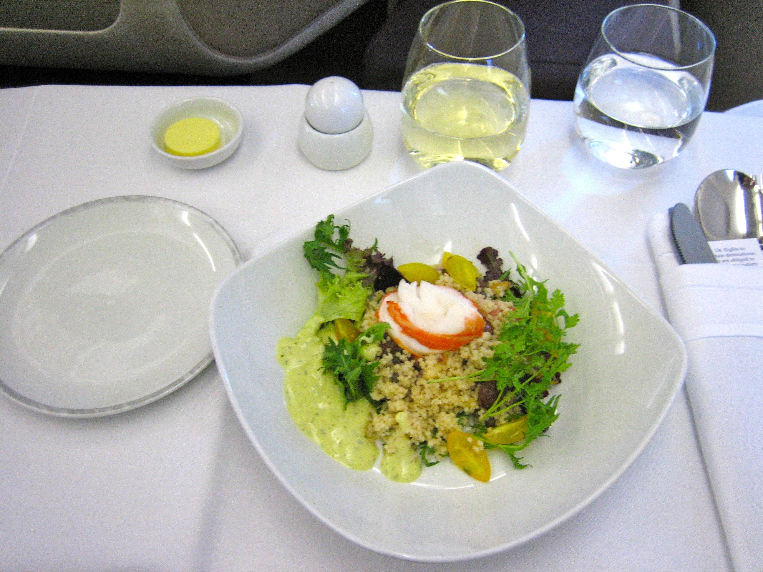 A crayfish starter for the business folks on Singapore Airlines.